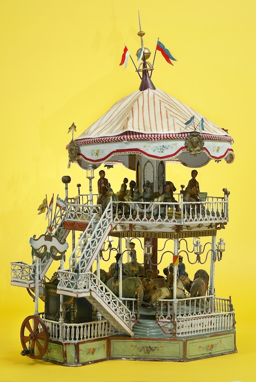 The object in this image is within the permanent collection of The Children’s Museum of Indianapolis